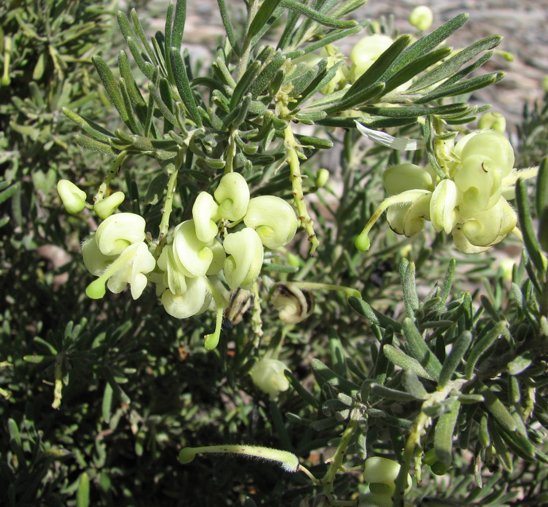 Grevillea lanigera 'Lutea' (cultivated, labelled) Royal Botanic Gardens Cranbourne, Australia